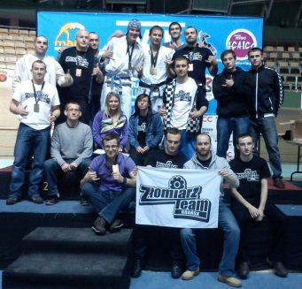 Złomiarz Team VII MP BJJ